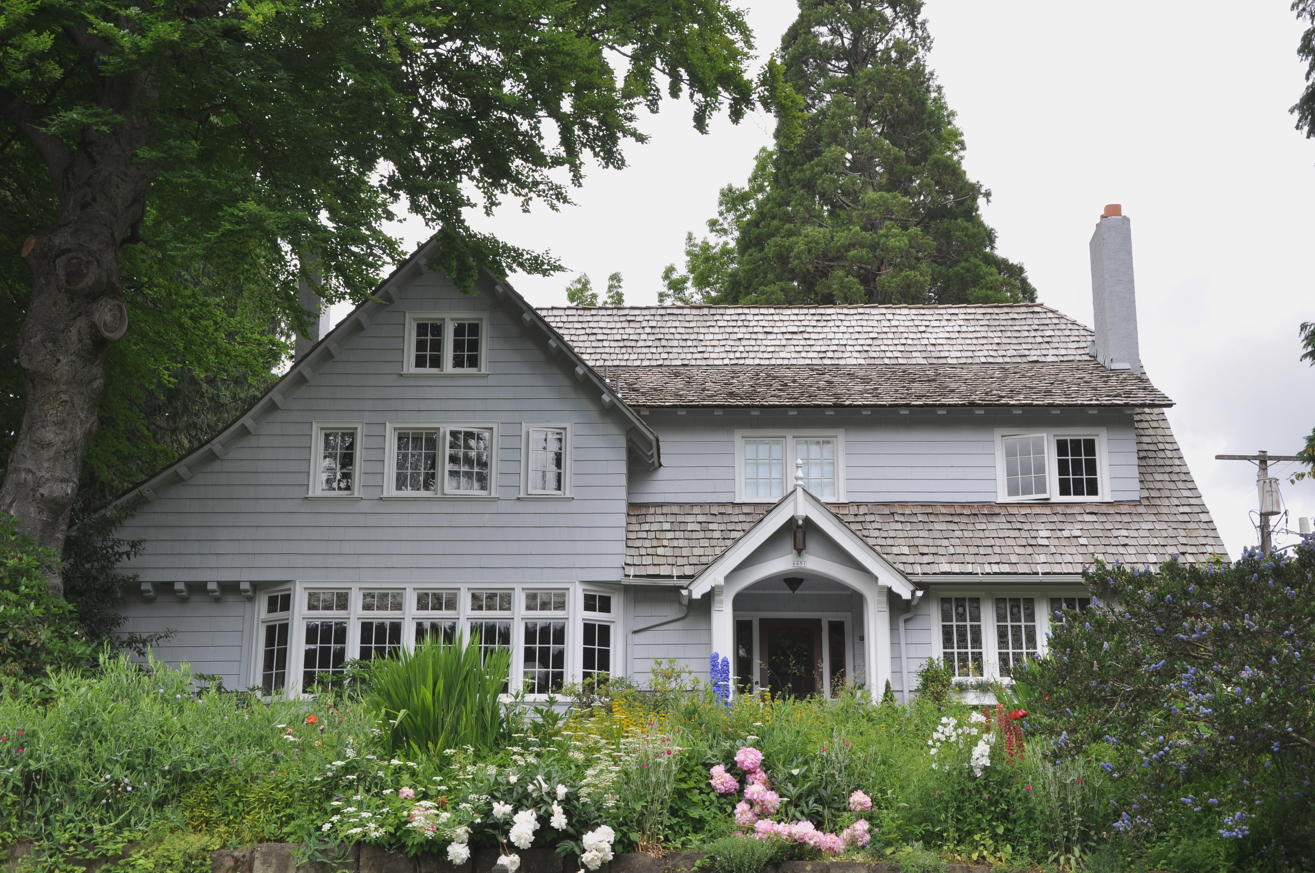 Wells–Guthrie House in Portland in the U.S. state of Oregon. The structure is listed on the National Register of Historic Places.